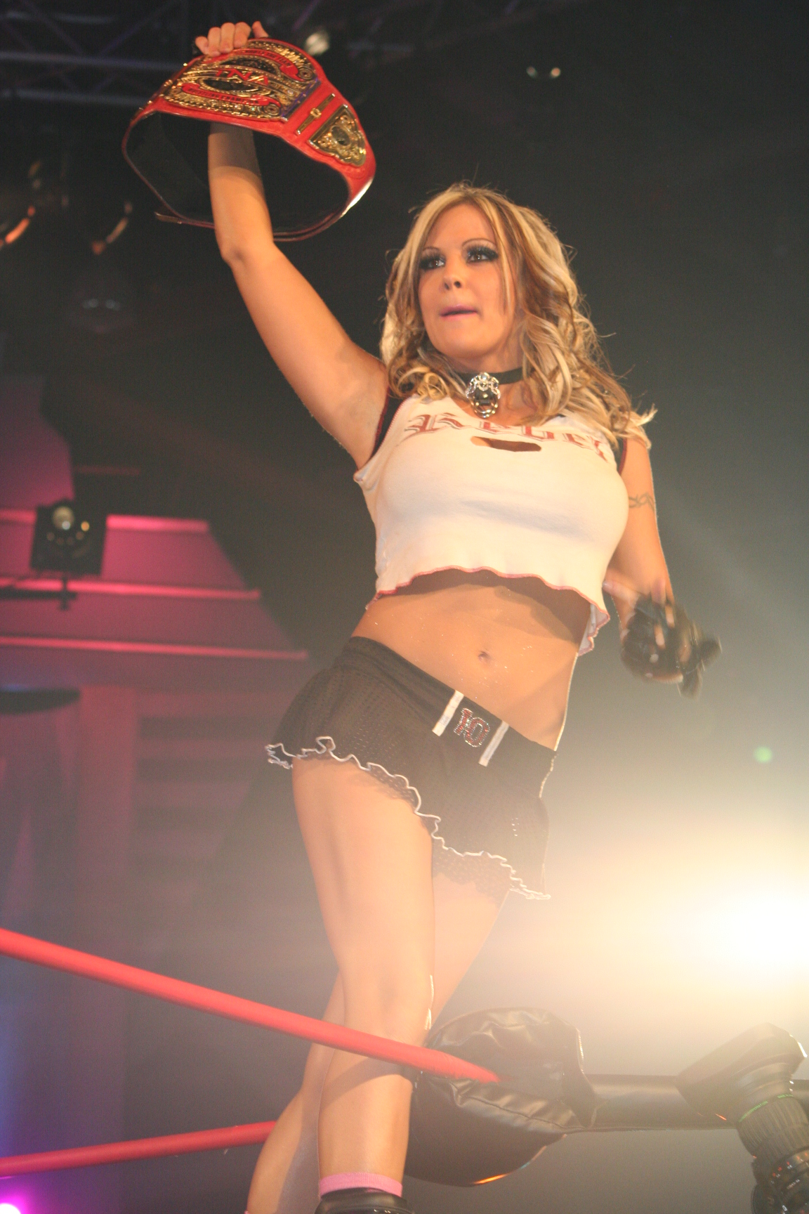 Velvet Sky holding one half of the TNA Knockouts Tag Team Championship.